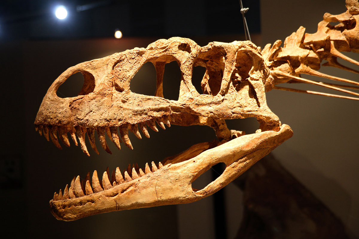 Afrovenator - 03